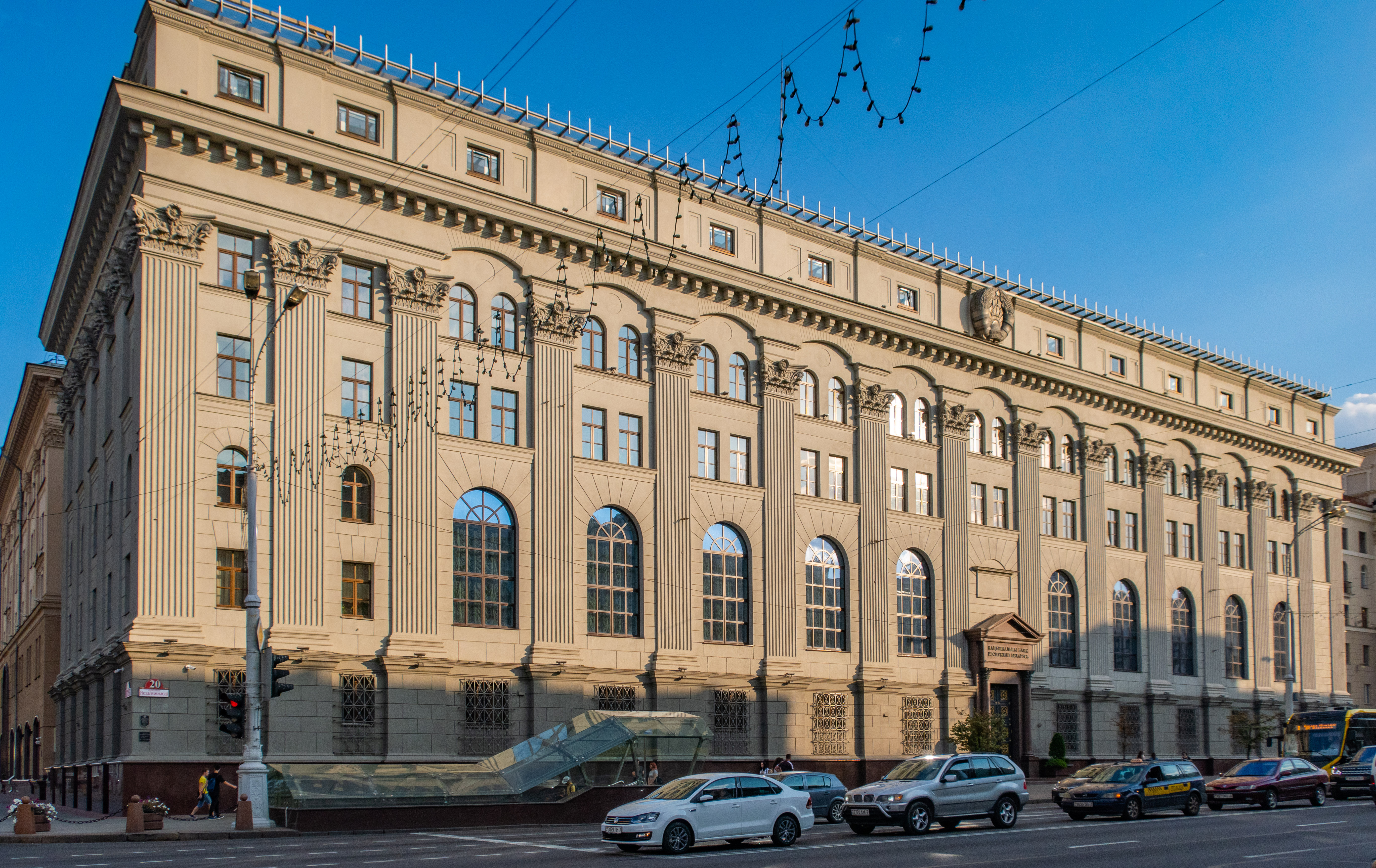 National Bank of the Republic of Belarus